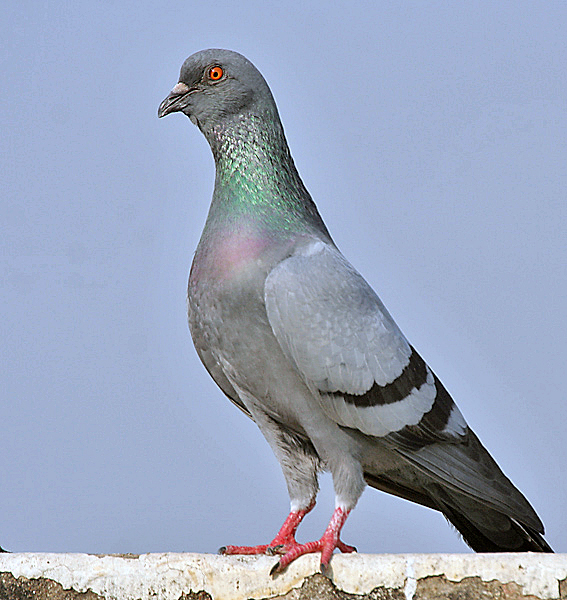 Blue Rock Pigeon Columba livia in Kolkata, West Bengal, India.